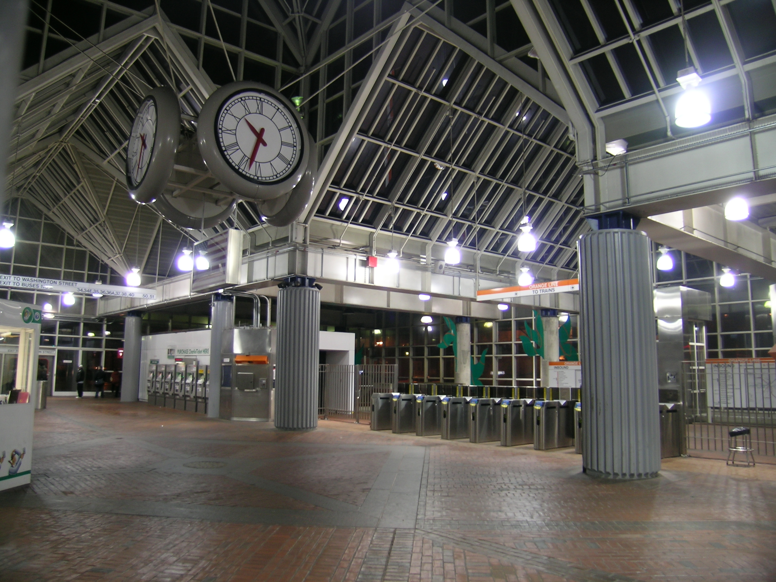 Interior of Forest Hills Station on the MBTA Orange Line and Needham line, located in Forest Hills, Jamaica Plain, Boston